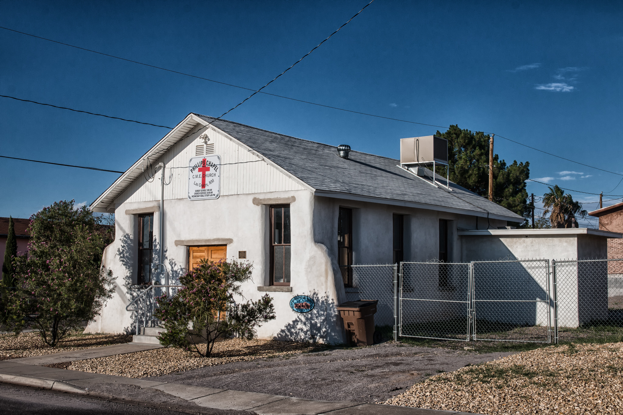 This is a view of the southeast corner of the Phillips Chapel CME church in Las Cruce, NM, USA, after the restoration that started in 2010.